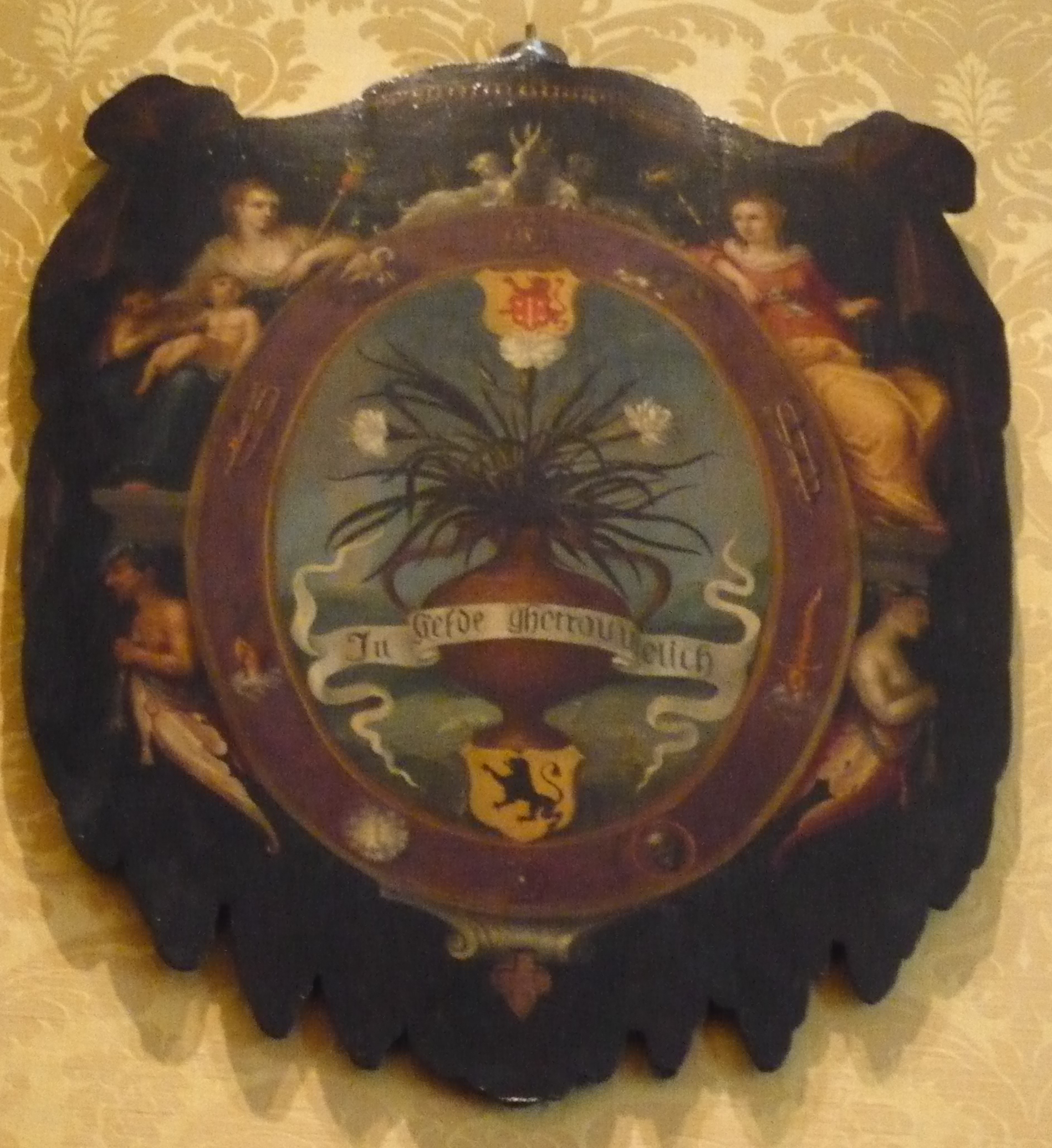 Historical "Blazoen" of a Chamber of Rhetoric, painted for the Haarlem council on the occasion of a lottery to build an old men's almshouse (currently the location of the Frans Hals Museum) in 1604-1606. Currently located in the clubhouse of the Haarlem society "Trou Moet Blycken". Haarlem chamber "De Witte Angieren" with motto "In Liefde Getrouwelich"